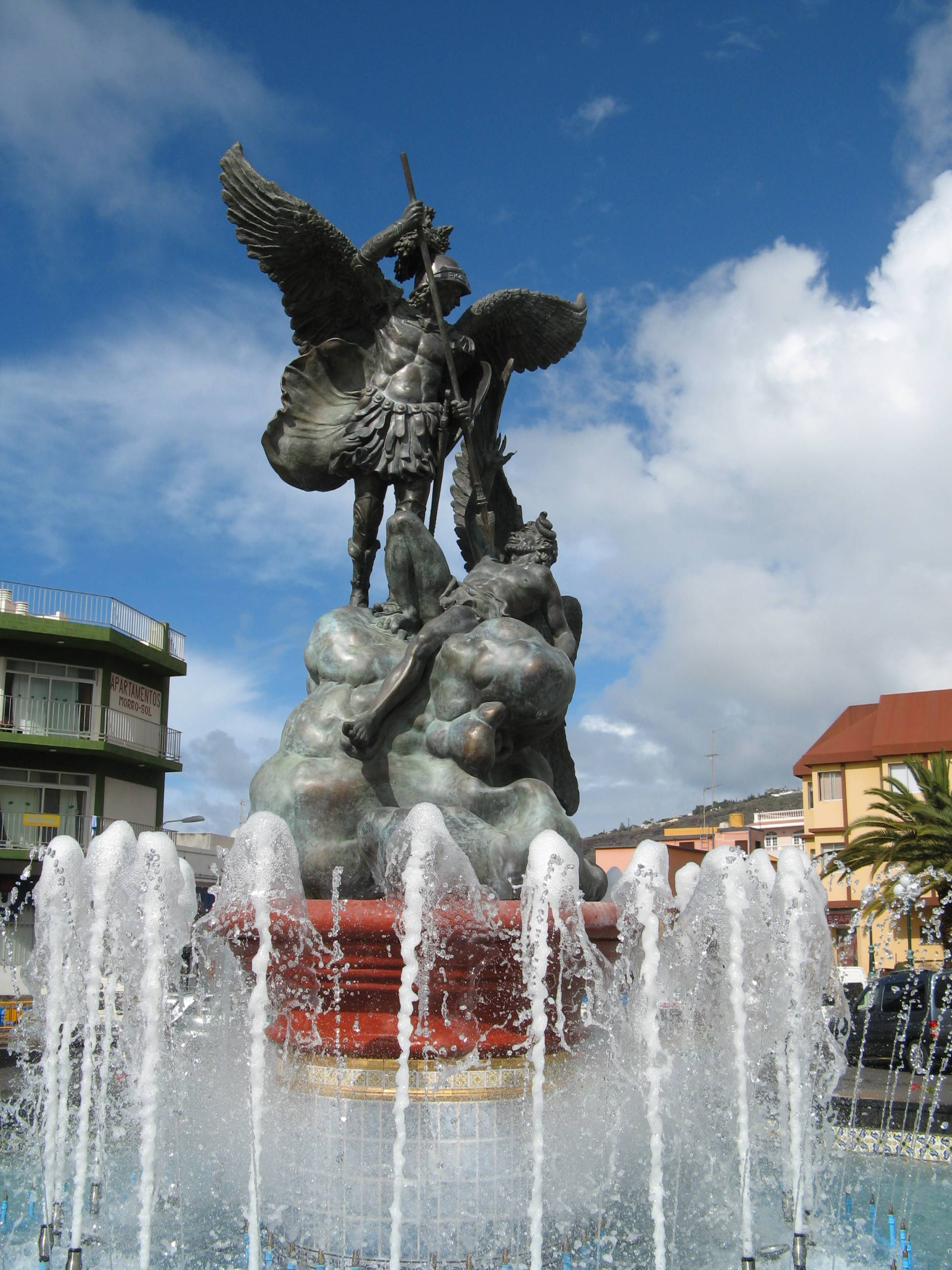 Statue "San Miguel de La Palma" from Luis Morera